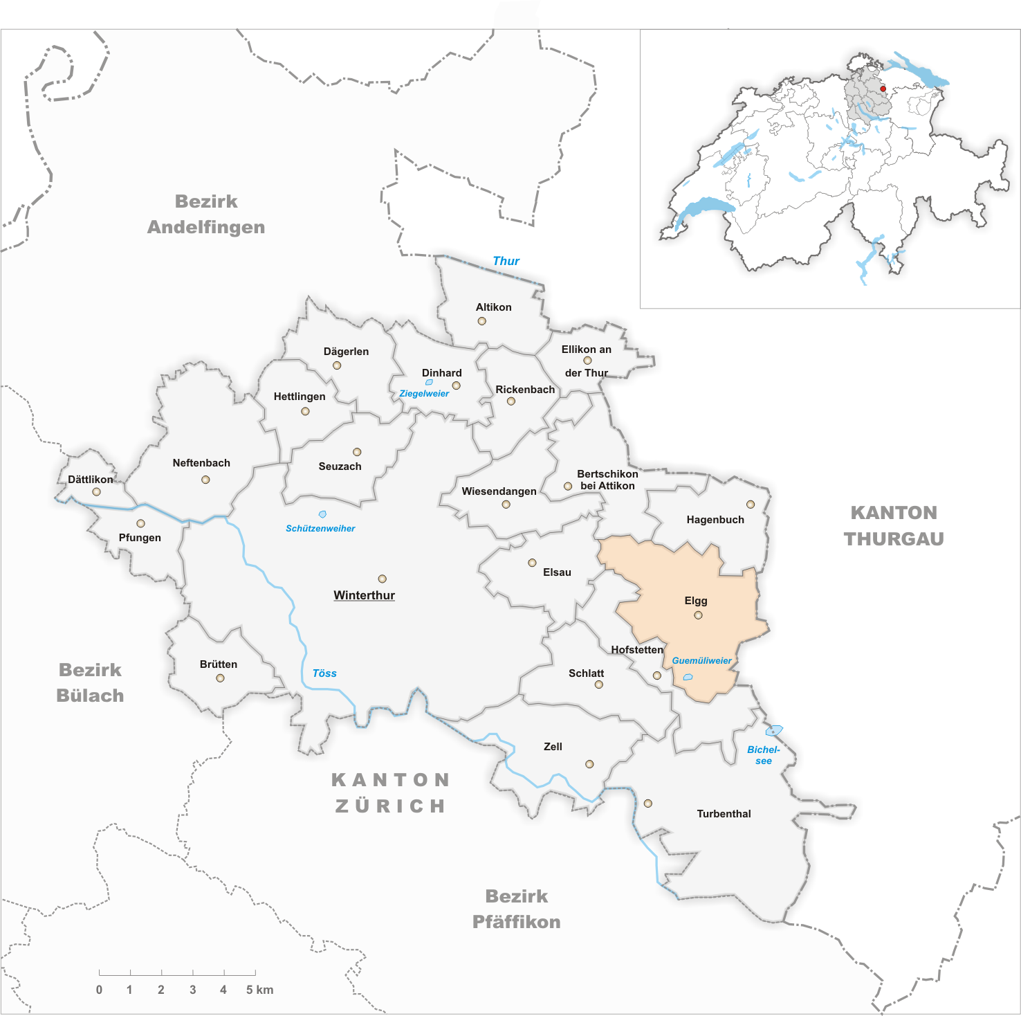 Municipality Elgg